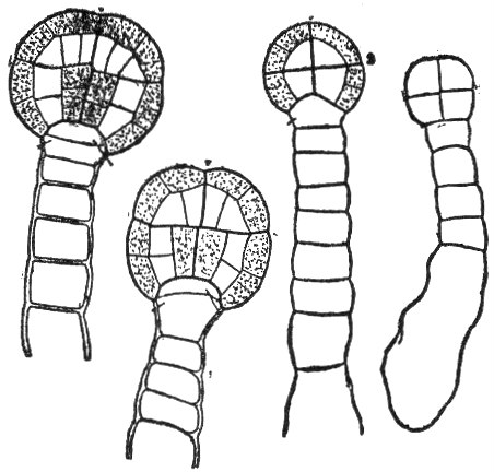 Embryo of capsella, showing superior (below) and embryo (above) in various stages of development.